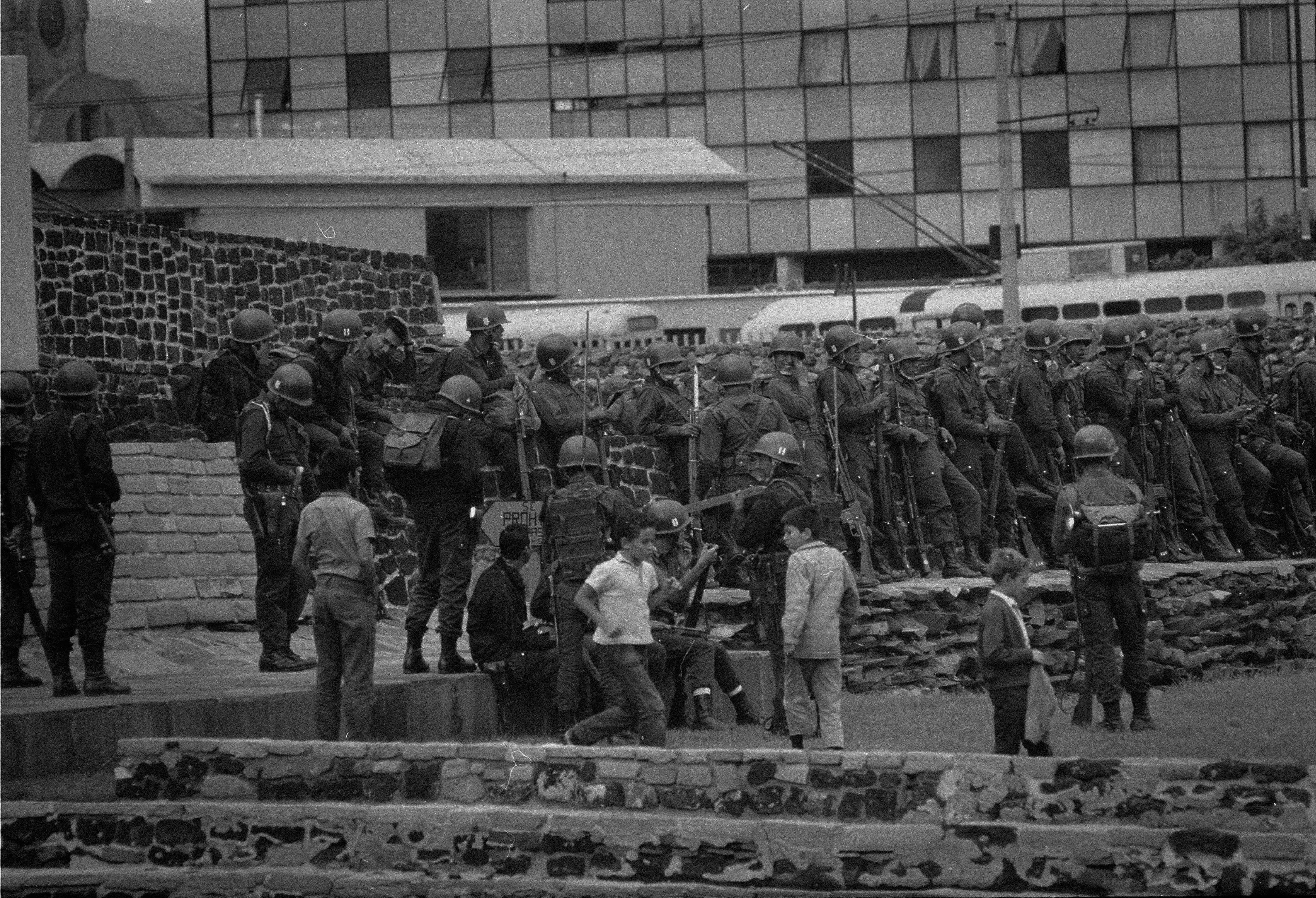 Images of Mexico City Student Movement, October 1968.